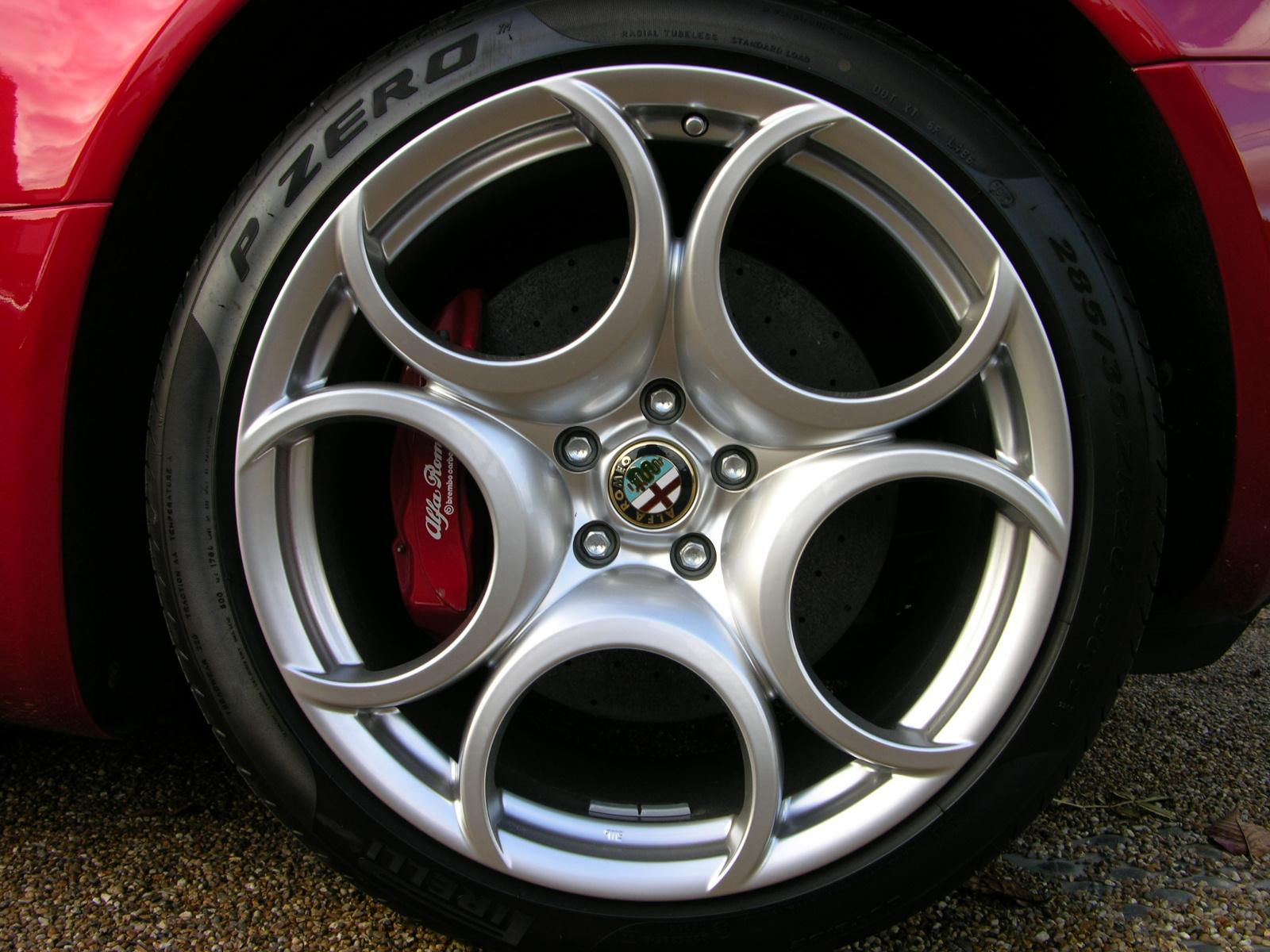 Alfa Romeo 8c Spider wheel